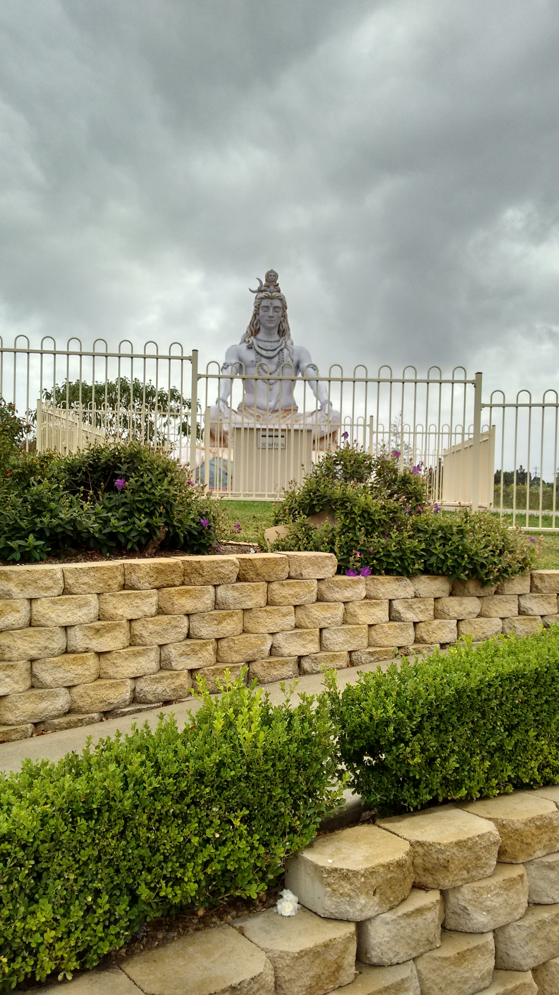 Shri Shiva Mandir, Minto, NSW, Australia